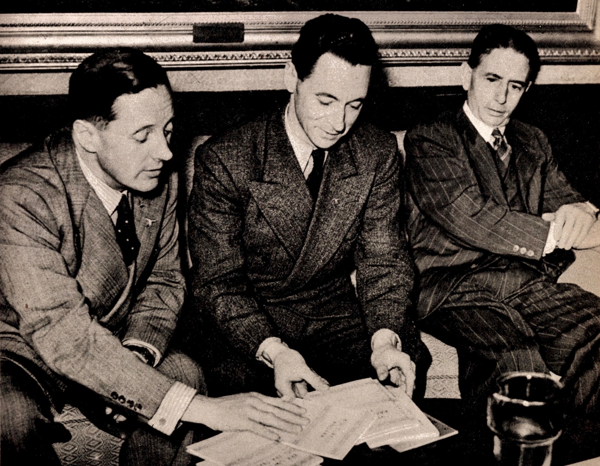 Photo from "Liv i kamp for Norge" ("Marie og Gulbrand Lunde Et liv i kamp for Norge"), a memorial book about Norwegian couple Marie (1907–1942) and Gulbrand Lunde (politician, 1901–1942), published by "Rikspropagandaledelsen" (propaganda department of Nasjonal Samling, Norwegian fascist party 1933–1945) and "Blix forlag" in Oslo, Norway 1942.Cropped JPG from PDF (a low resolution digitized version) of the book downloaded from National Library of Norway's site NO-OsNB (999824600824702202)